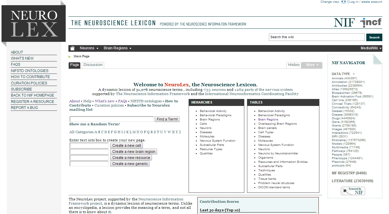 Screen shot of NeuroLex top page, as of 2014-02-01.